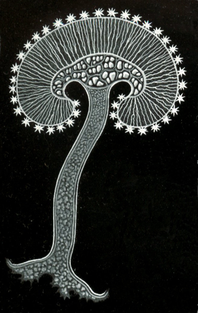 Didymium farinaceum (Schrader) = Didymium melanospermum (Pers.) T.Macbr., sporangium in lengthwise section